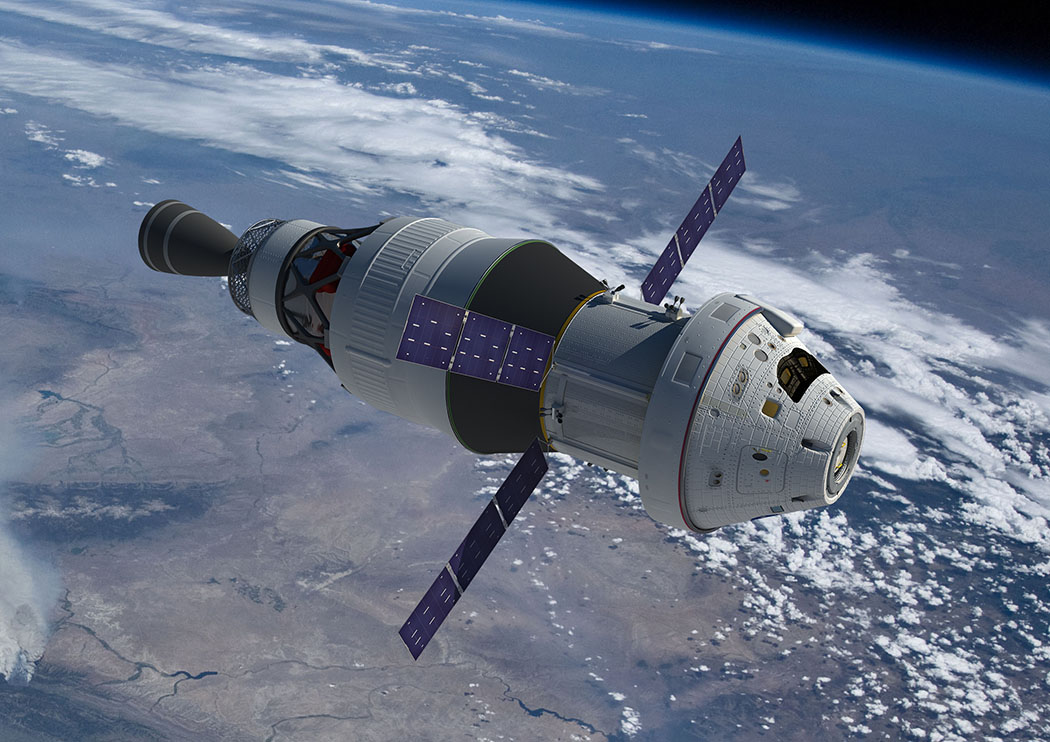 Artist concept of the Orion MPCV in Earth orbit, with the European Service Module and the Interim Cryogenic Propulsion Stage.